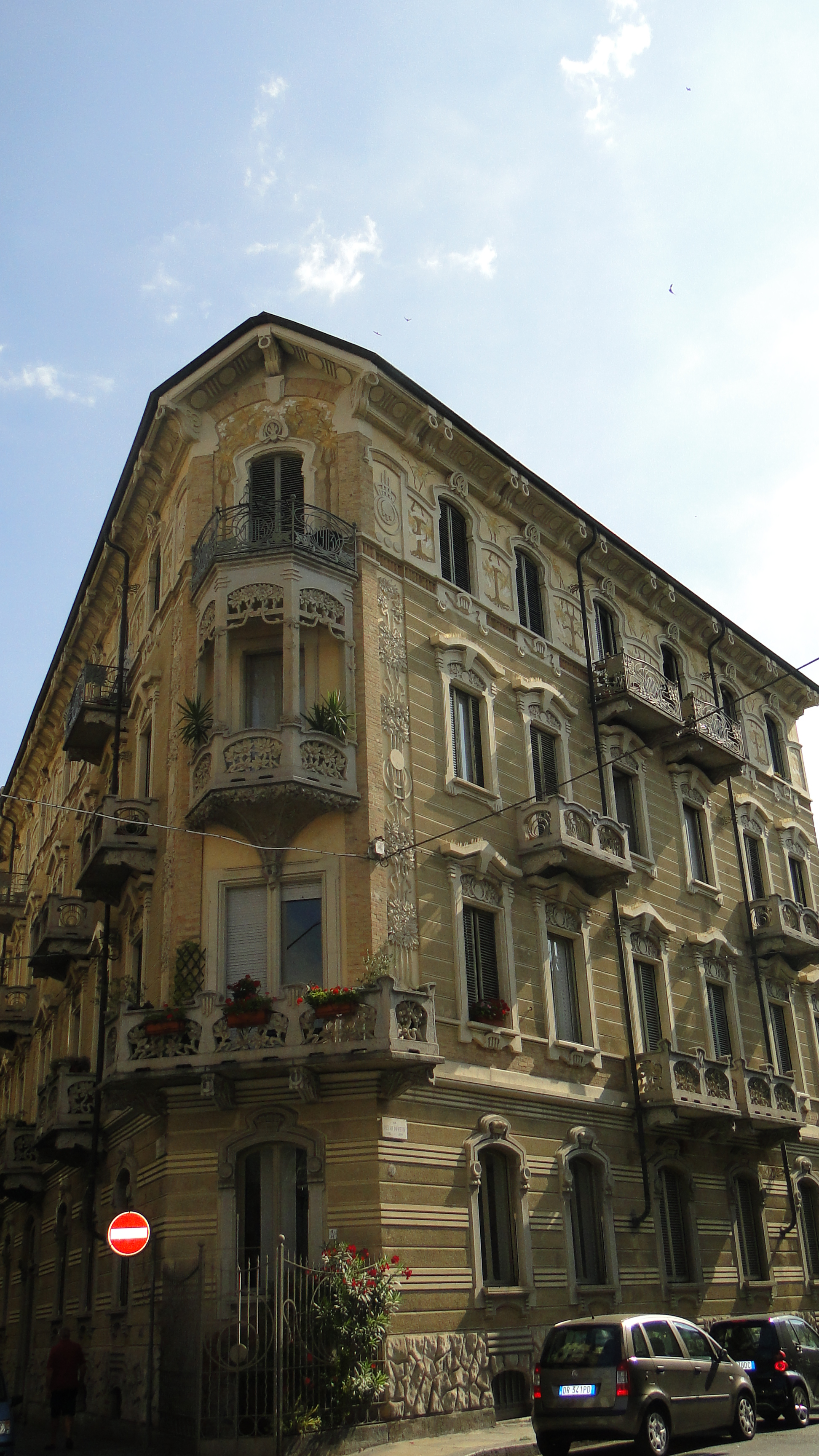 Art Nouveau in Turin - Corner House Piffetti-Beaumont street (Tasca House)